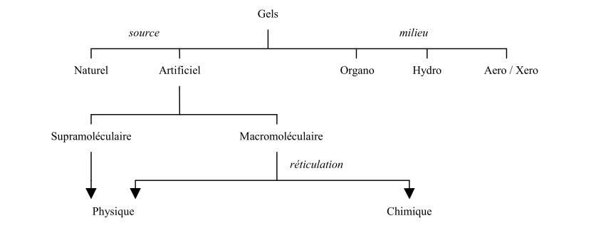 classification possible des hydrogels